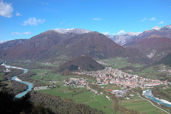 Tolmin from Bucenica